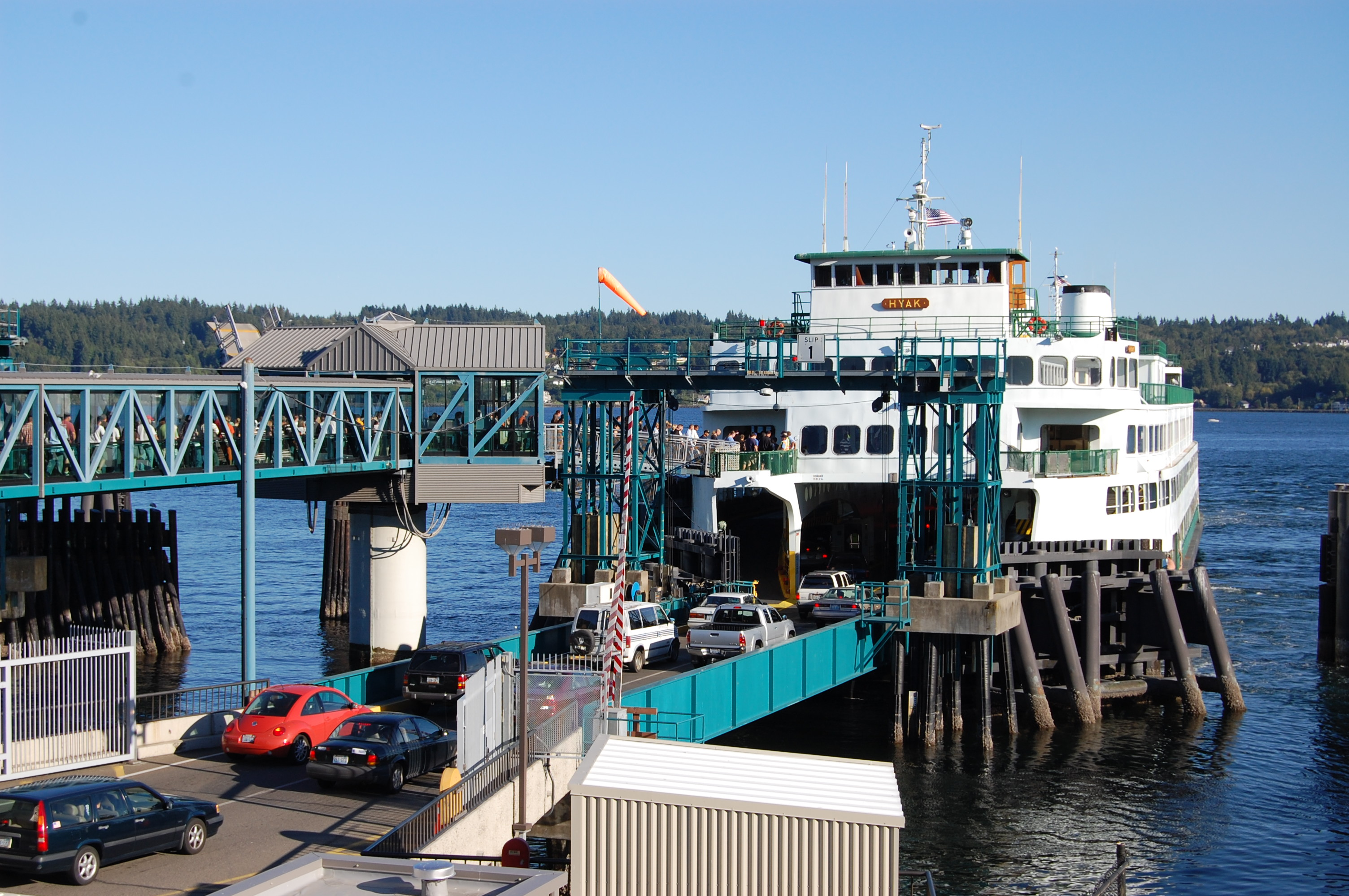 Passengers and vehicles board the MV Hyak in Bremerton.